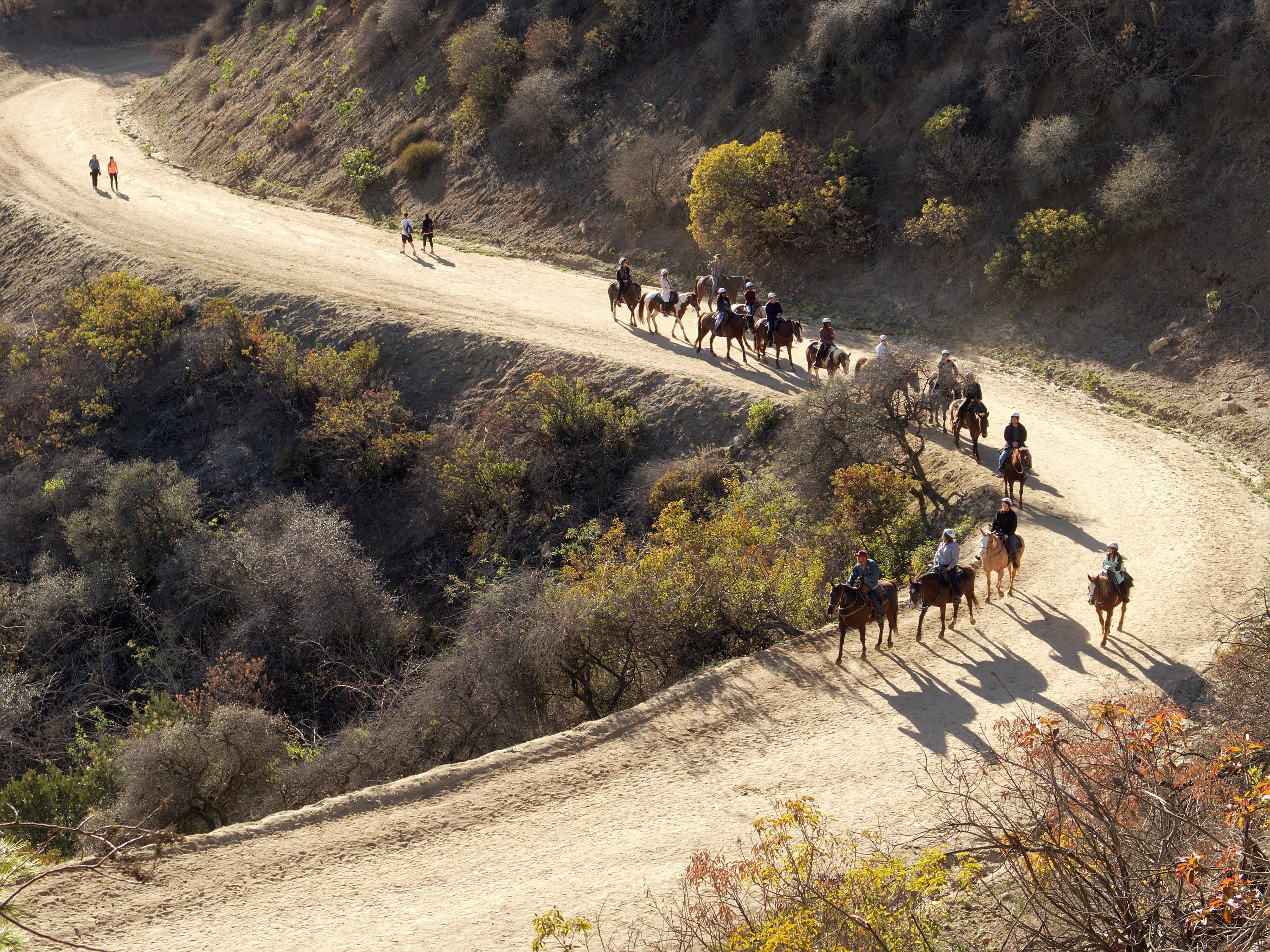 A pack of rented horses travels the utility roads of Griffith Park on a Sunday afternoon in late December.